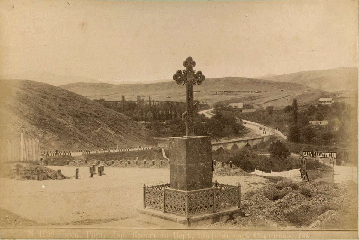 Tiflis. Vera gardens.